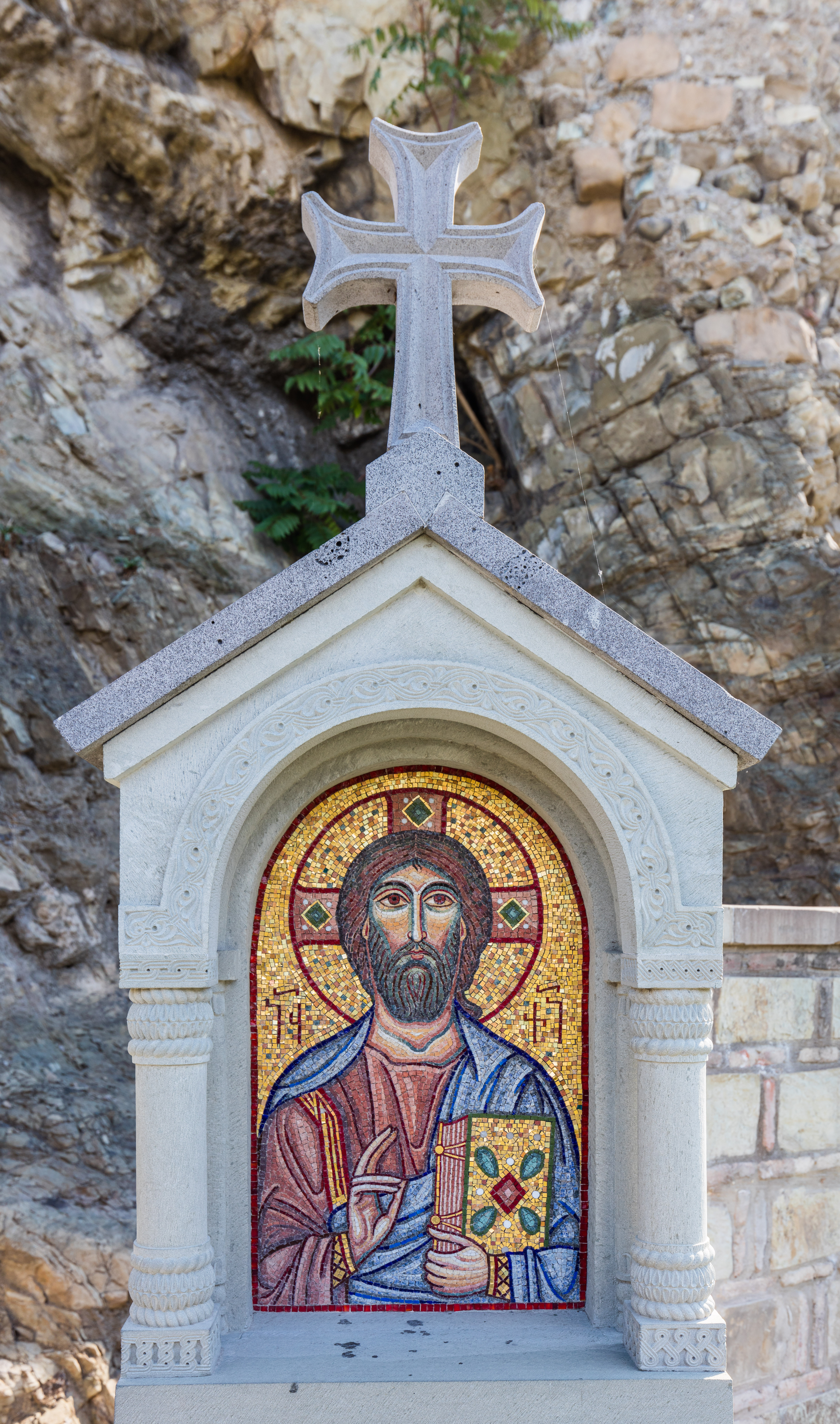 Iglesia de San Abo de Tiflis, Tiflis, Georgia